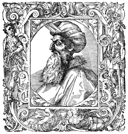 Portrait of Qaitbay, Mamluk Sultan of Egypt (1468-1496).